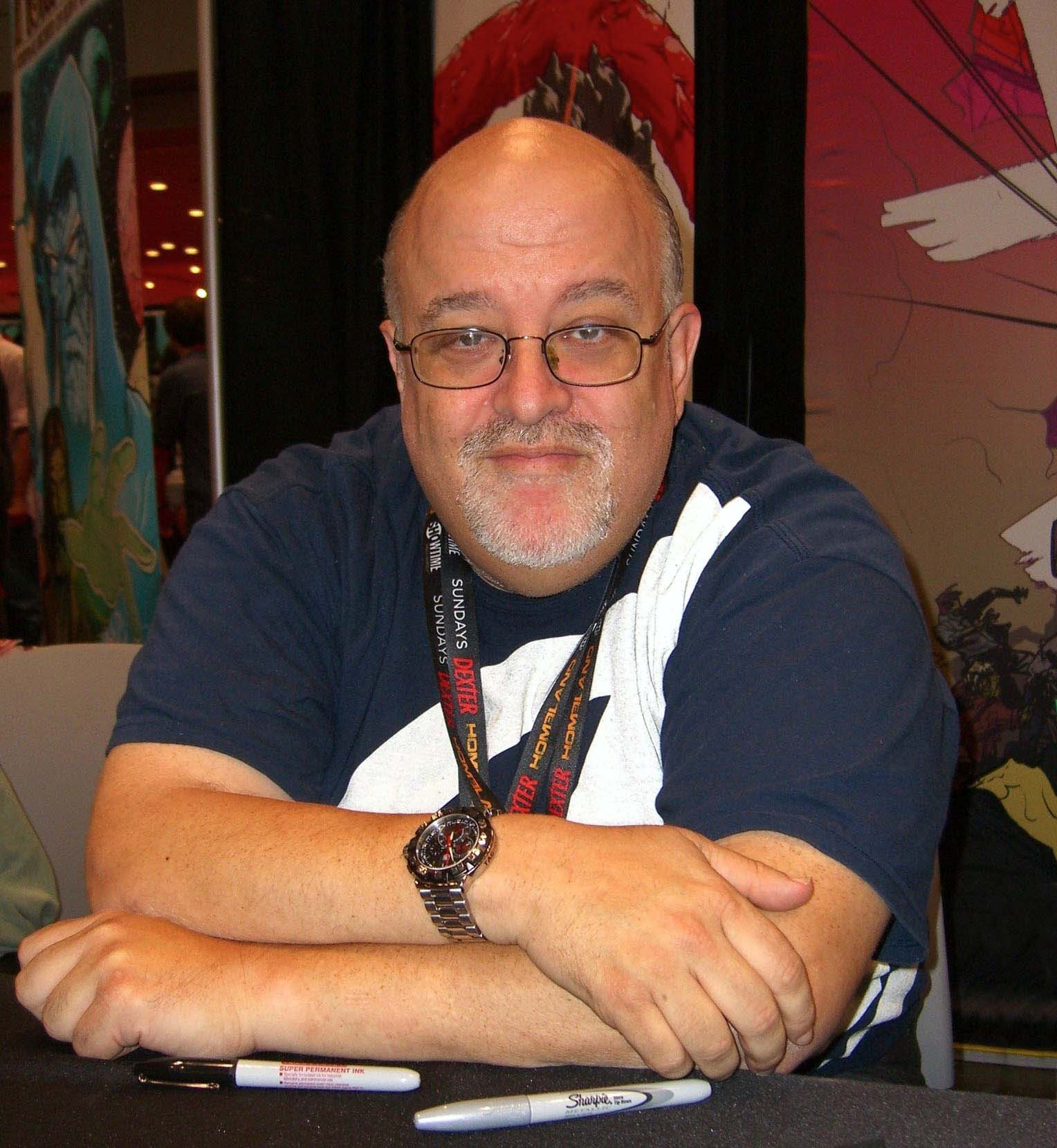 Writer Peter David at the 2011 New York Comic Con, Friday, October 14, 2011. This photo was created by Luigi Novi. It is not in the public domain, and use of this file outside of the licensing terms is a copyright violation.